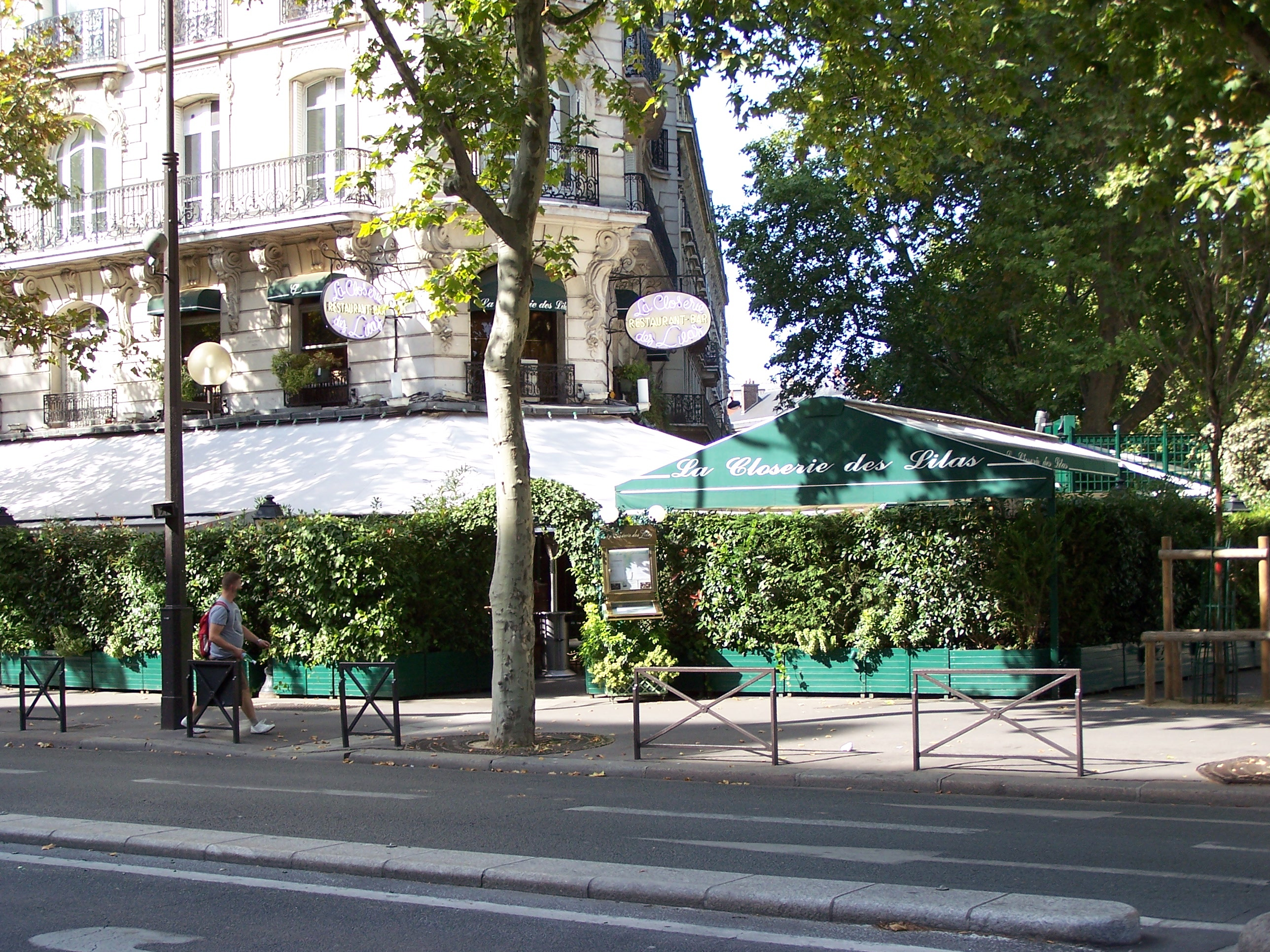 View of the brasserie/restaurant La Closerie des Lilas at boulevard du Montparnasse in Paris